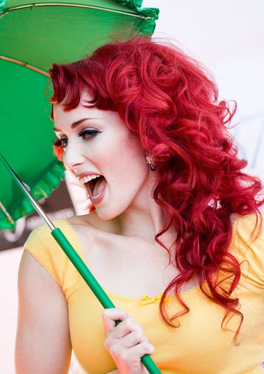 Red Carpet @ Austin Fashion Awards